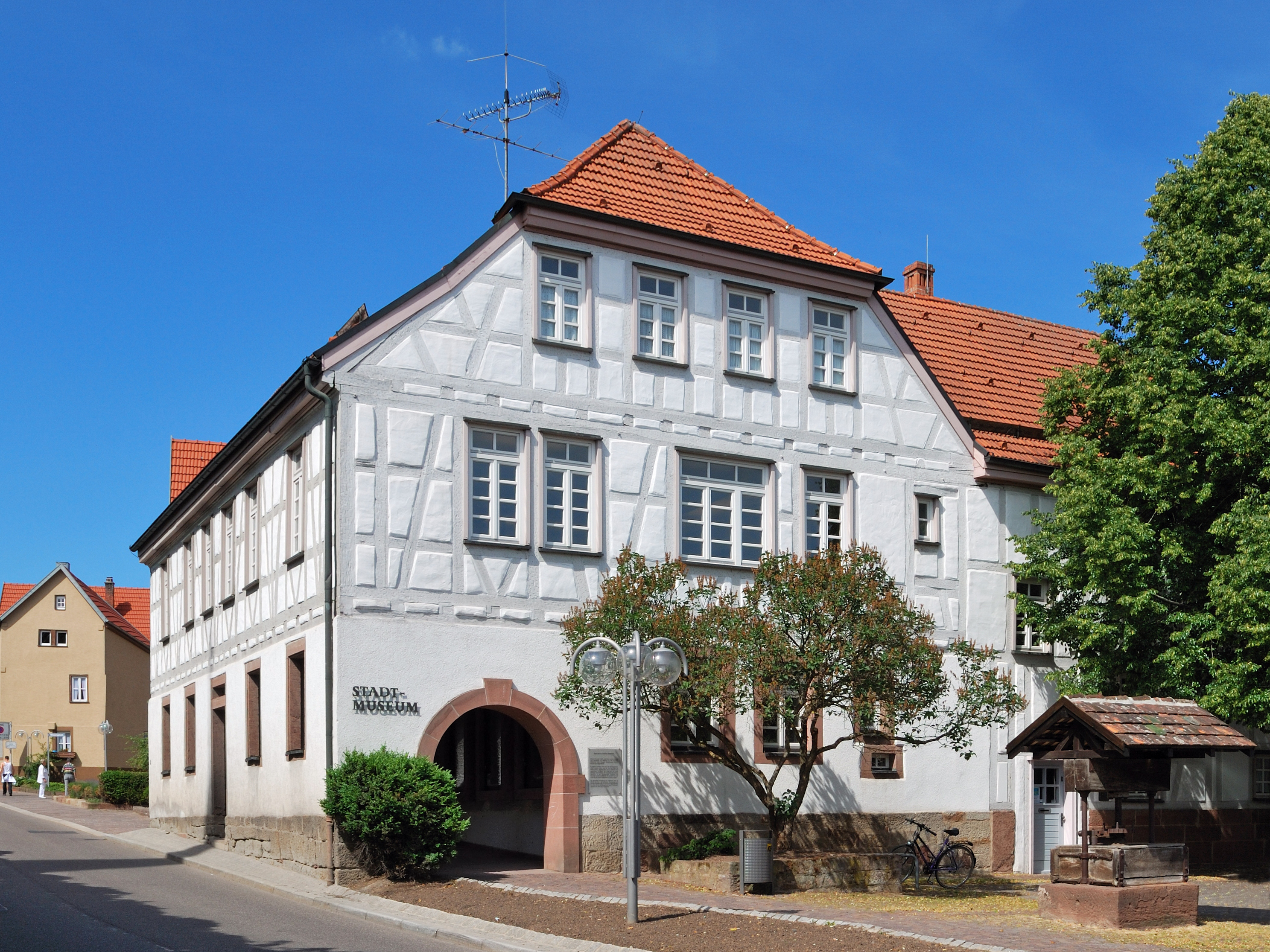 Town museum in Gerlingen in Southern Germany.